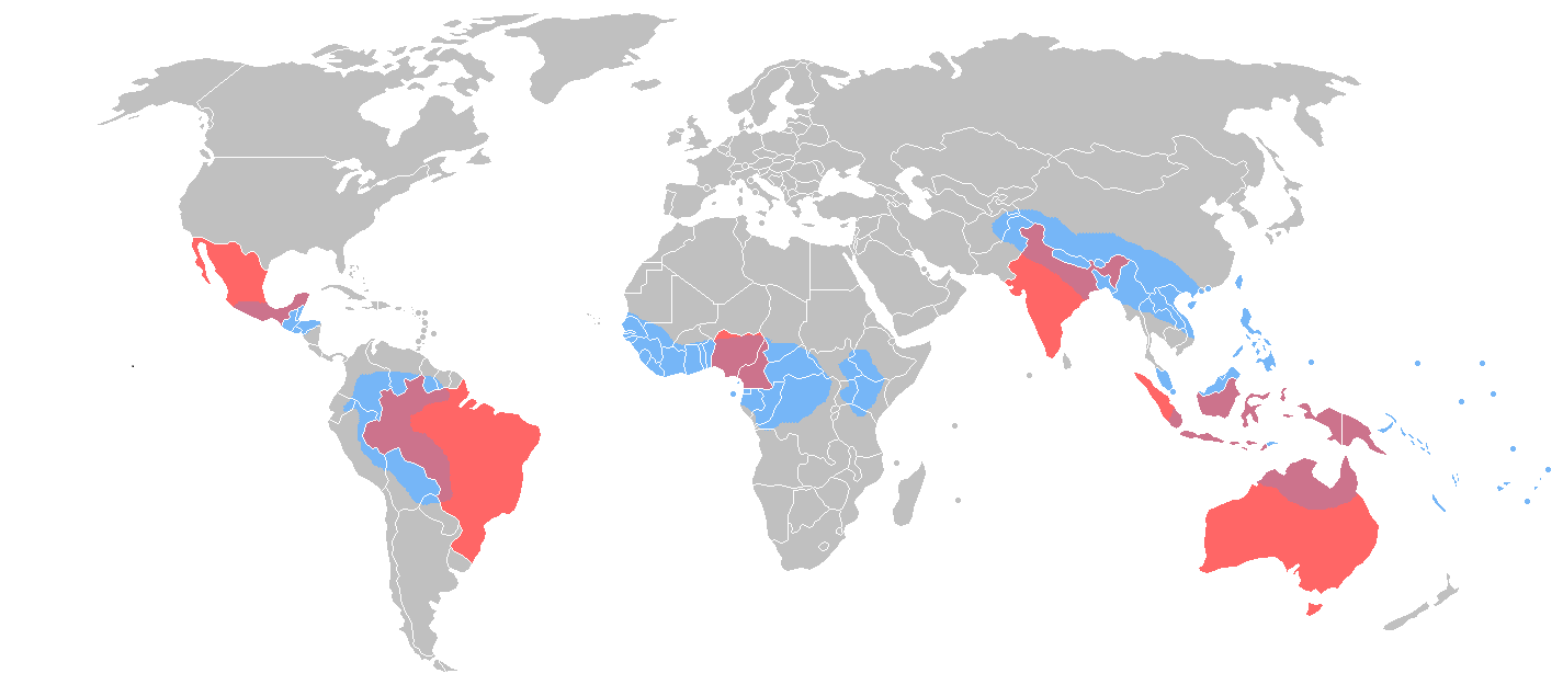 Linguistic diversity in the world: Red: the 8 megadiverse countries that together have more than 50% of the world languages Blue: areas of great diversity (Source: Ethnologue map)